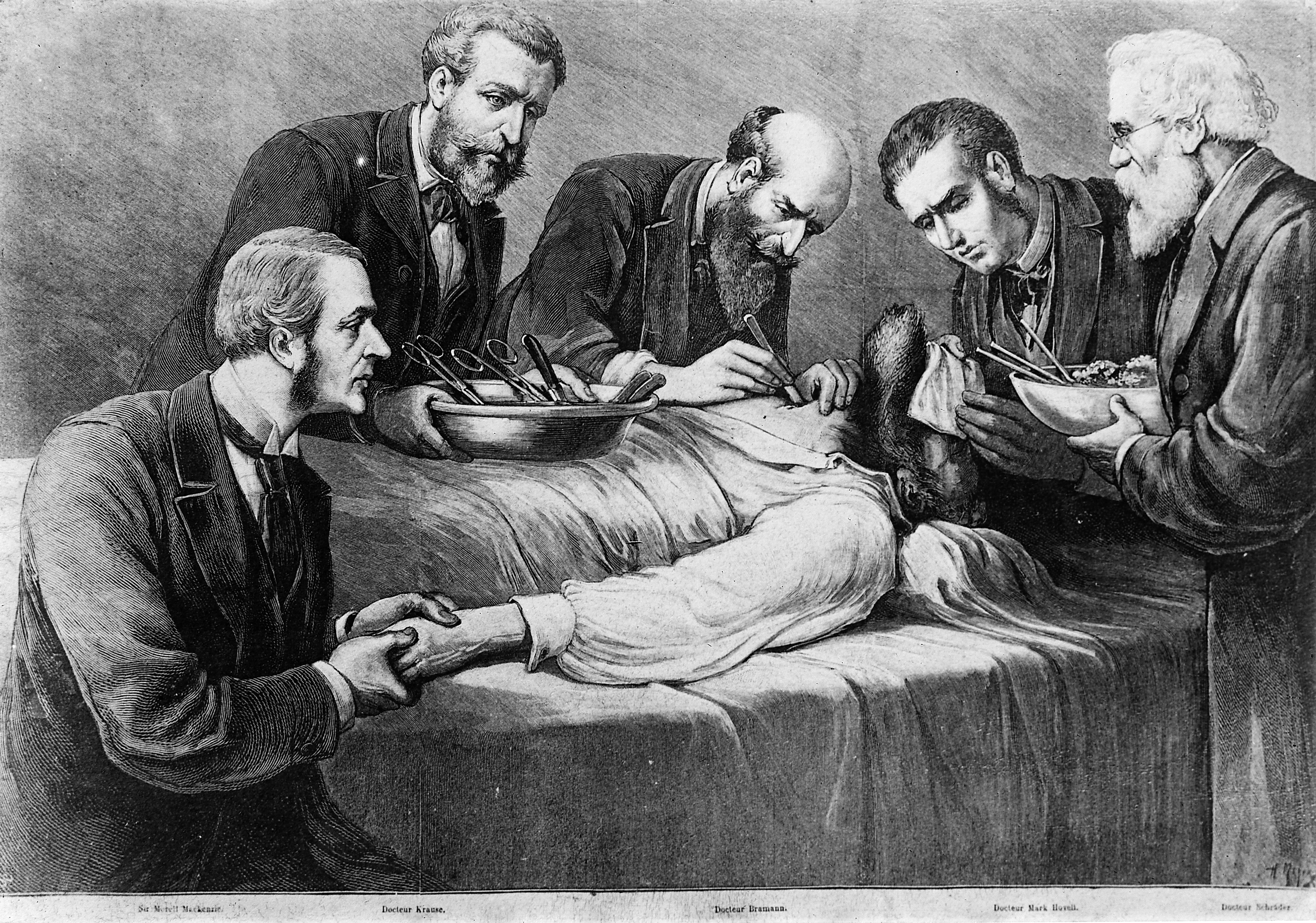 Operation on the throat of the Kaiser Frederick III by drs. Morell Mackenzie, Hermann Krause (1848–1921), Friedrich Gustav von Bramann, Mark Hovell and Schrader; (signature indistinct) Iconographic Collections